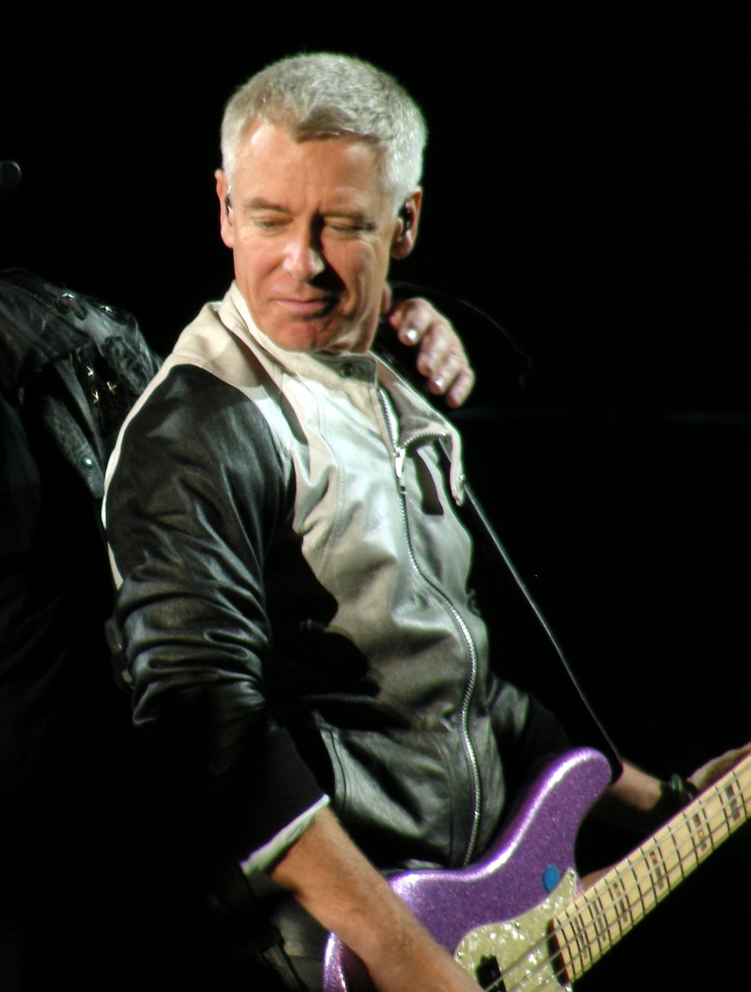 Adam Clayton during a U2 concert at Scott Stadium on October 1, 2009 on the band's U2 360 Tour